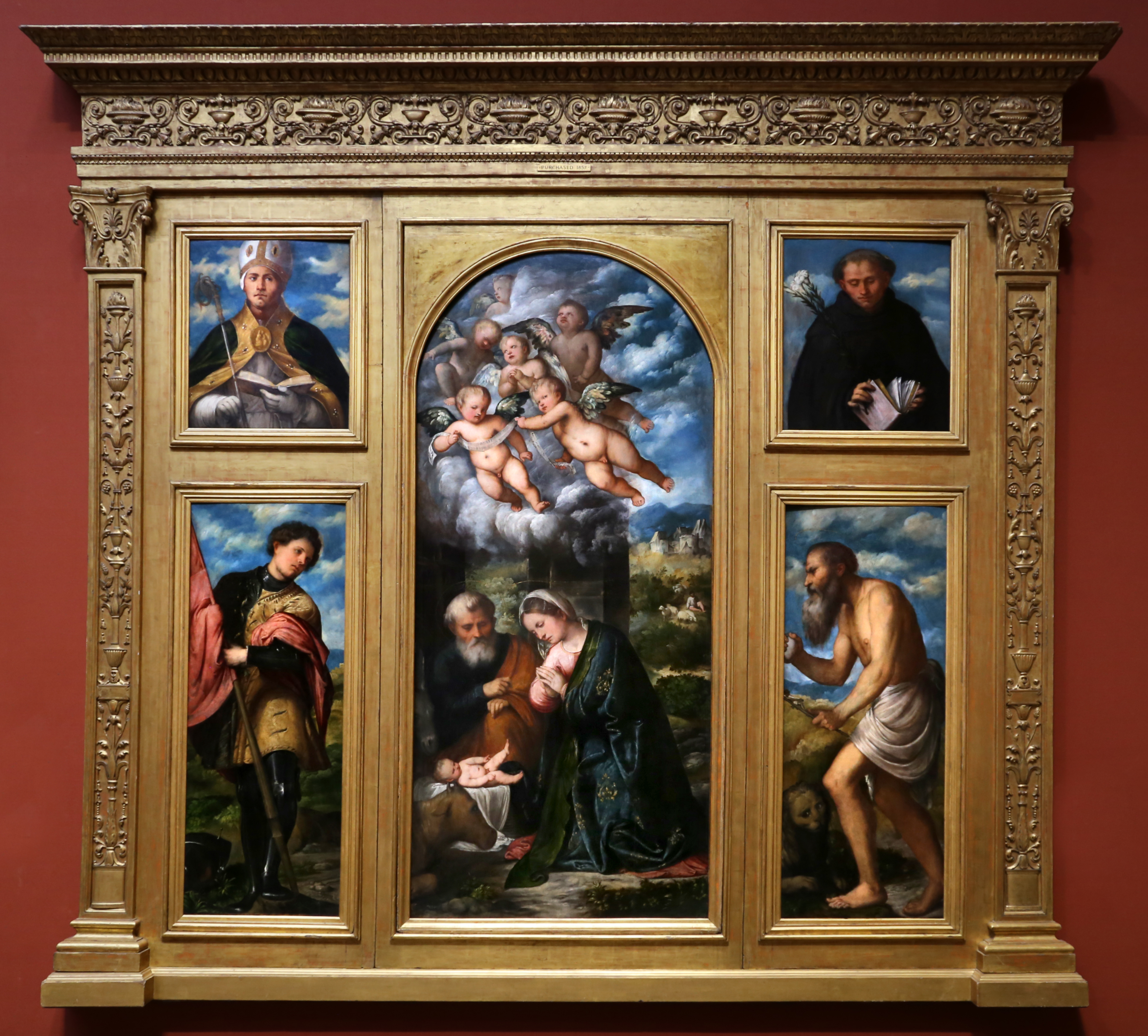 Italian Mannerist paintings in the National Gallery, London